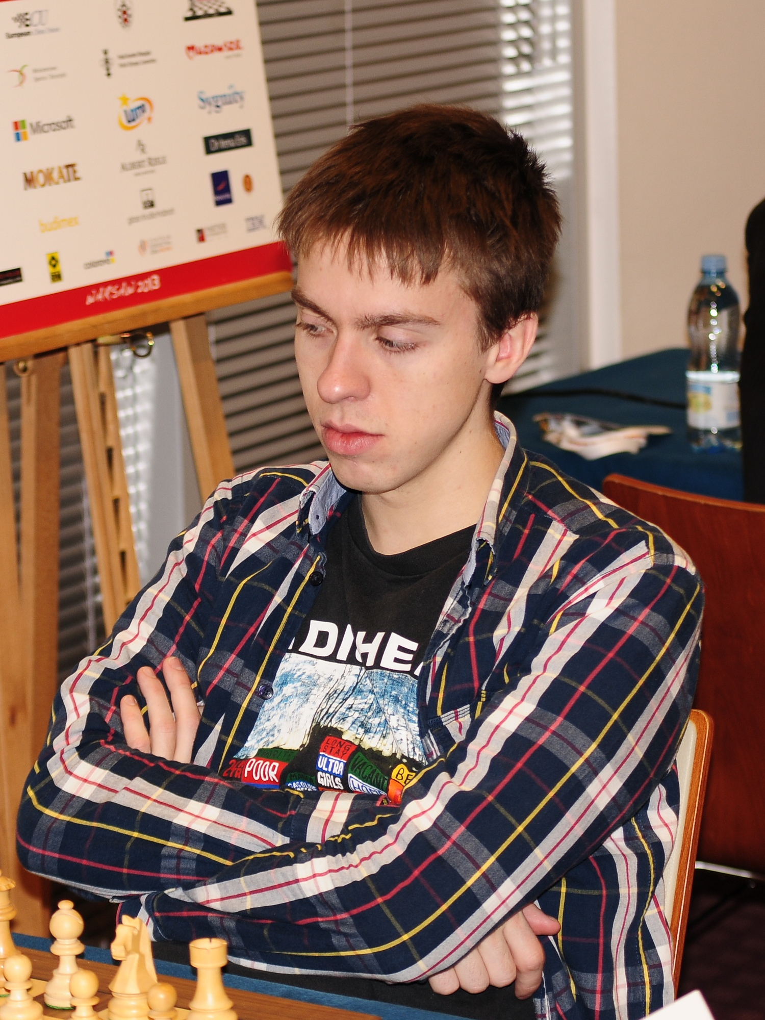 IM Guðmundur Kjartansson, European Chess Team Championship Warsaw 2013